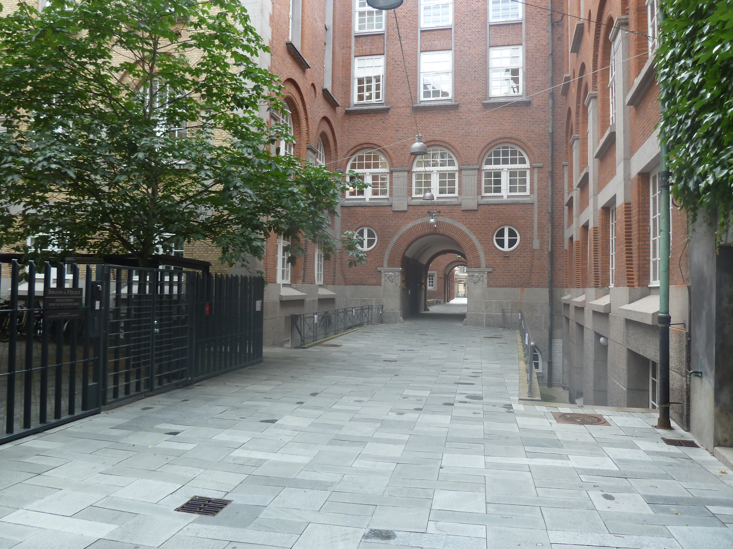 The passageway Sankt Petri Passage in Indre By in Copenhagen.